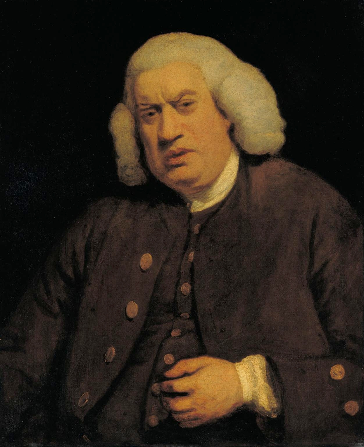 Portrait of Samuel Johnson commissioned for Henry Thrale's Streatham Park gallery